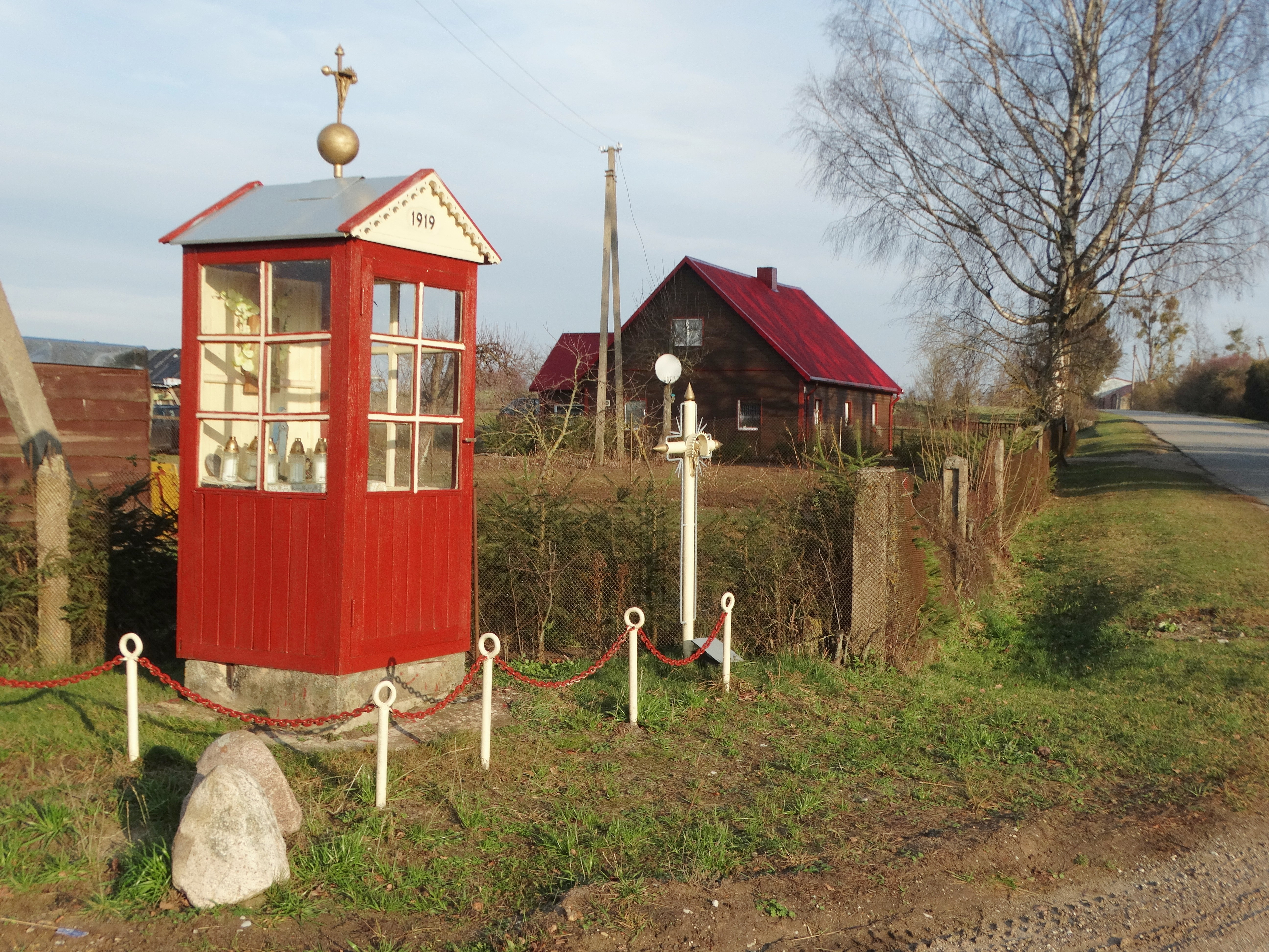 Dambrava, Prienai district, Lithuania